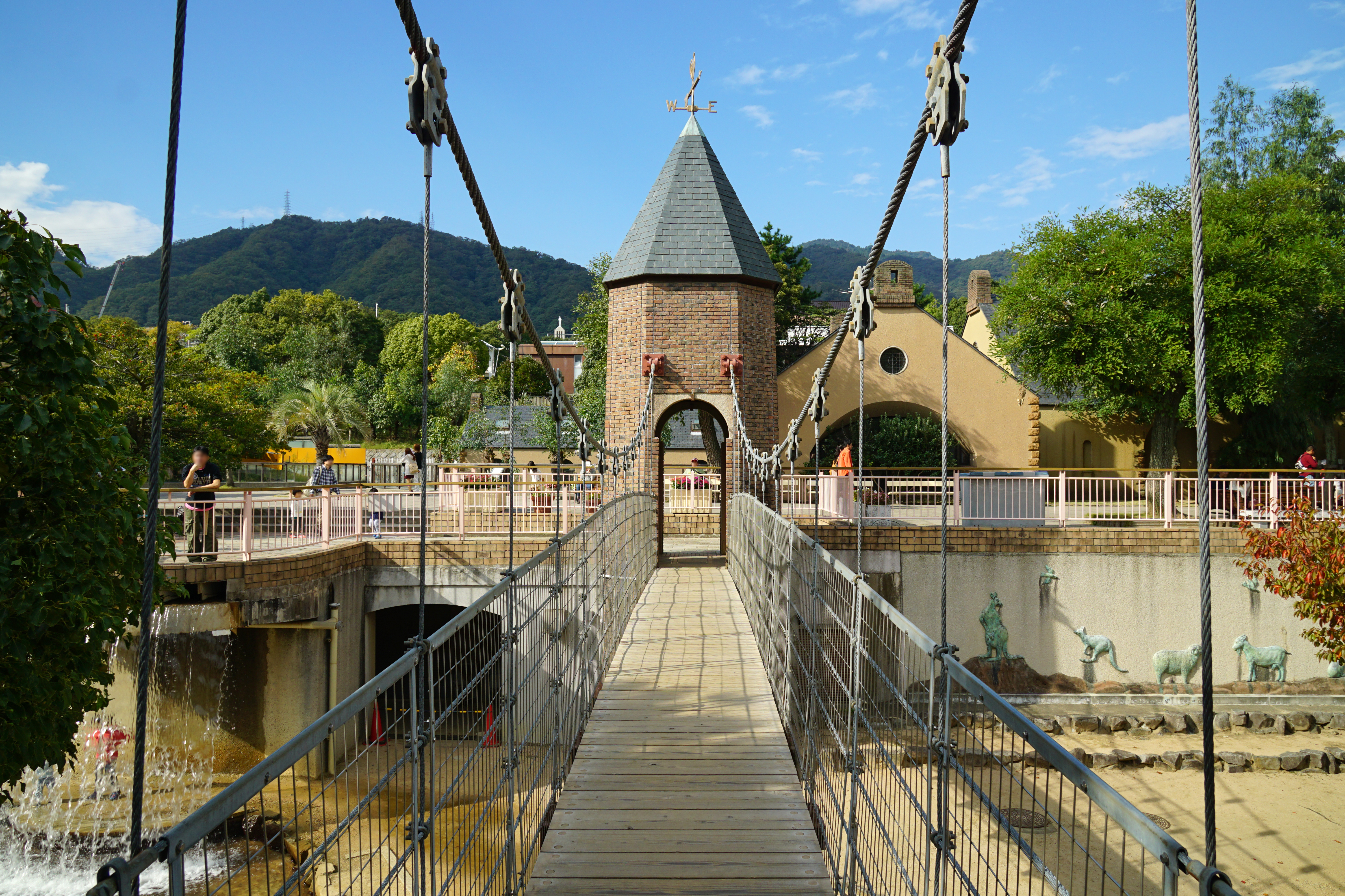 Kobe Oji Zoo in Kobe, Hyogo prefecture, Japan